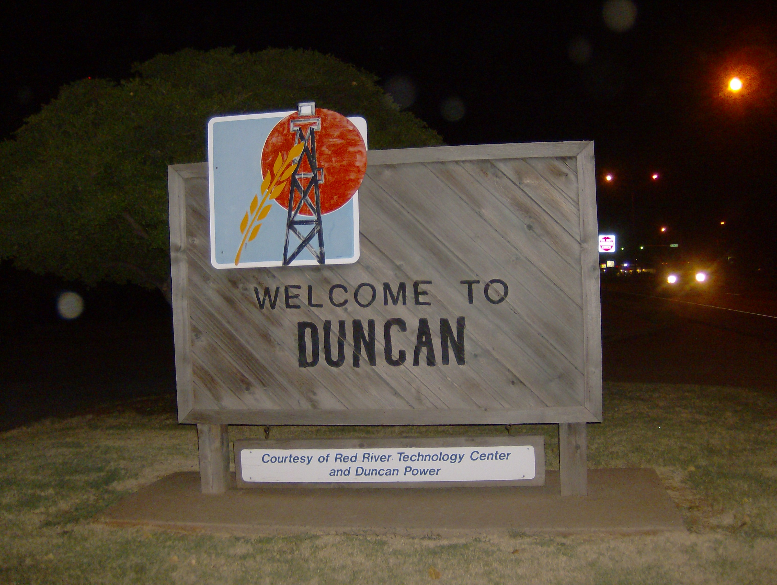 Welcome to Duncan